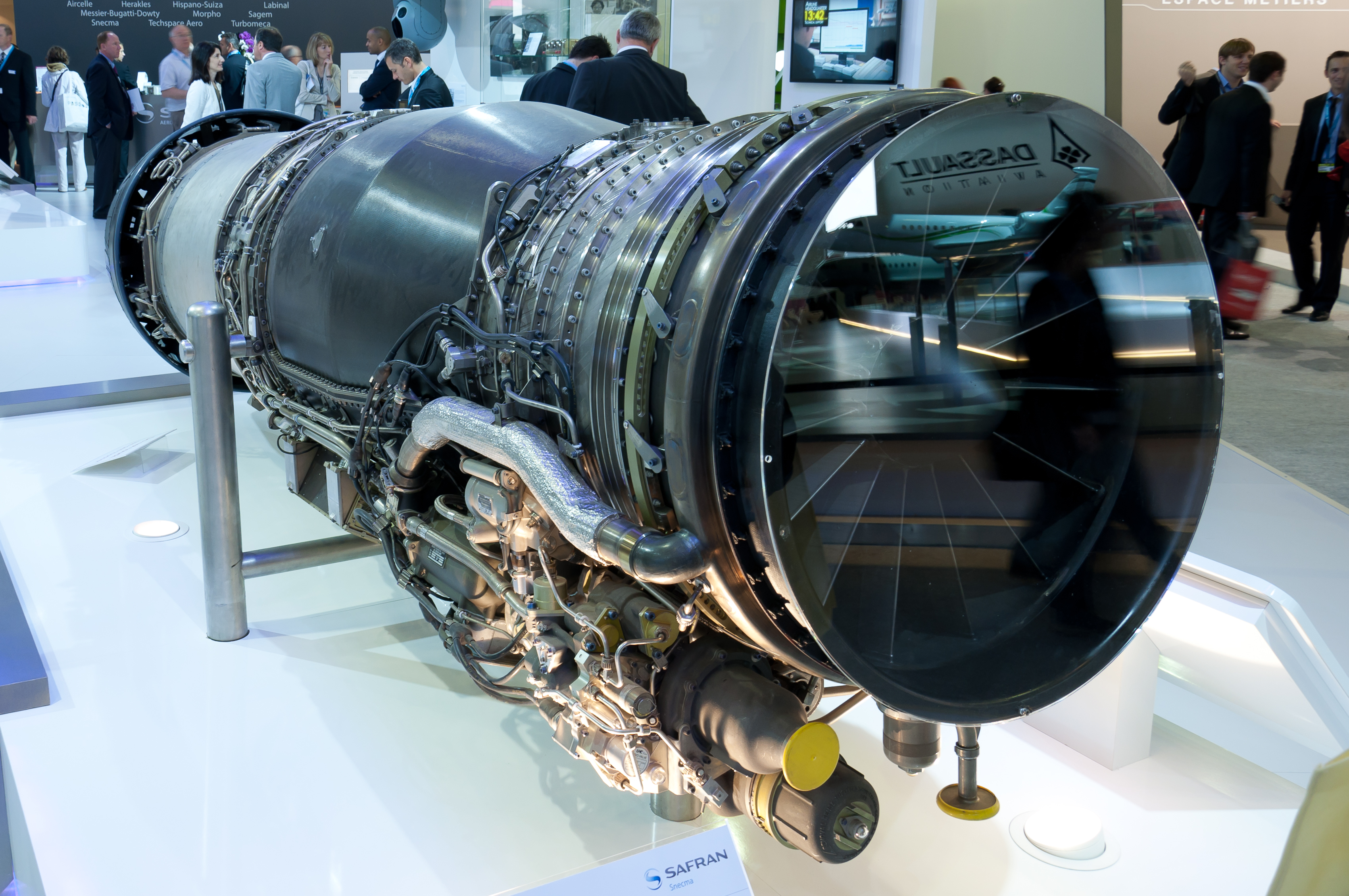 Snecma M88-4E afterburning turbofan engine for Dassault Rafale aircraft.